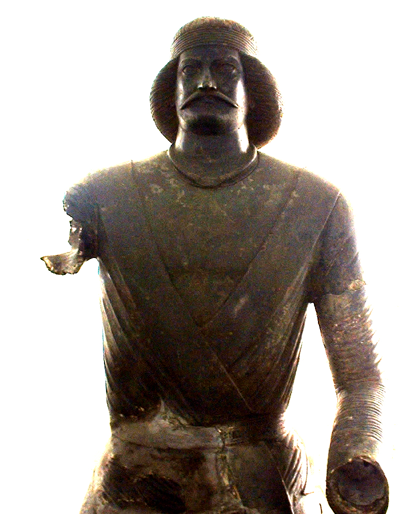 Parthian bronze statue, National Museum of Iran 2401, from Shami, Iran. Adapted from English Wikipedia public domain image Image:Arm less man.JPG.